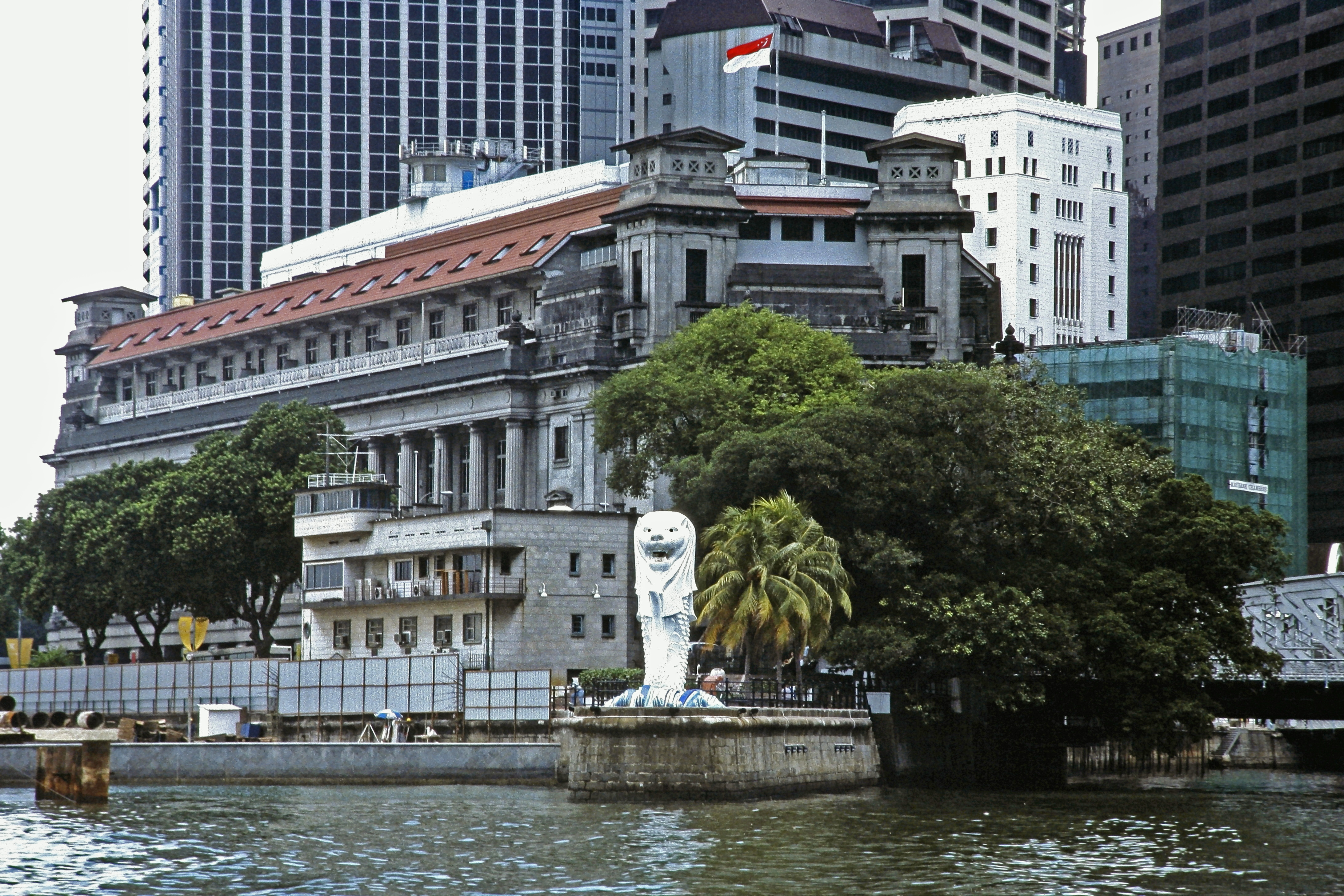 Merlion at the mouth of the Singapore River (original location). Behind are the Fullerton Building and (right) Anderson Bridge.